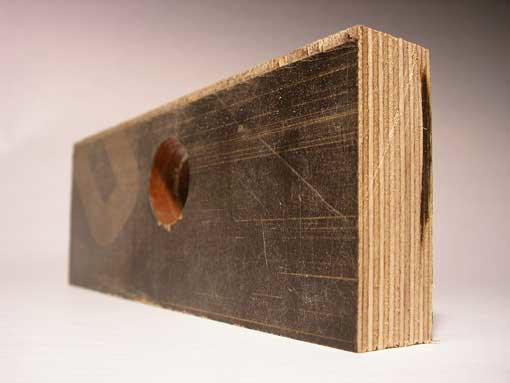 Betonplex is a high quality plywood (multiplex) that is coated with phenol used in concrete pouring author: Rotor DB 09:36, 20 January 2007 (UTC)